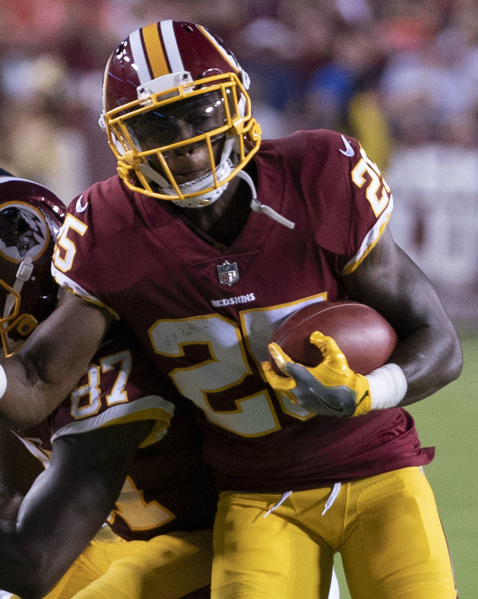 Broncos at Redskins 8/24/18